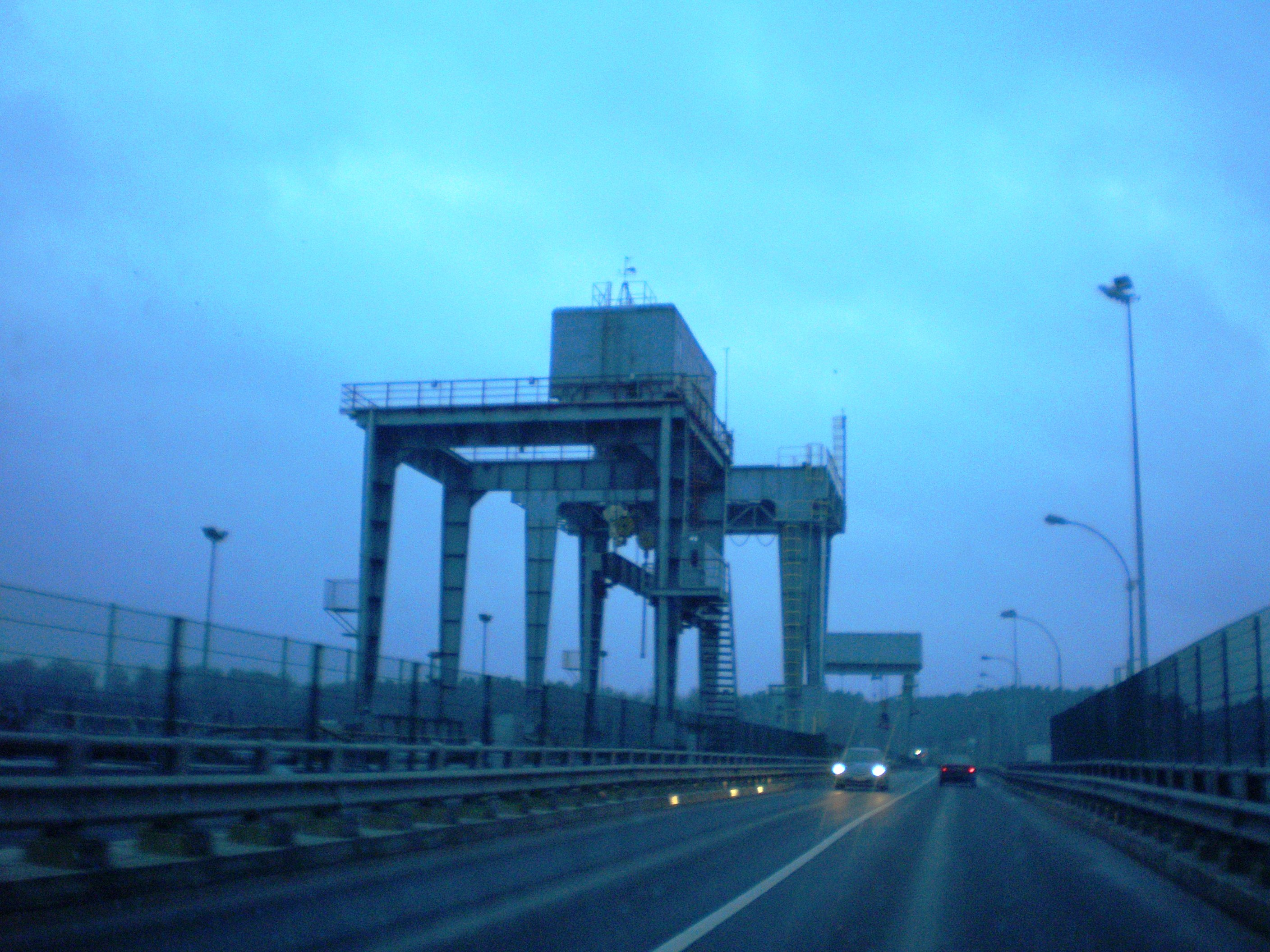 Kaunas Hydroelectric Power Plant.